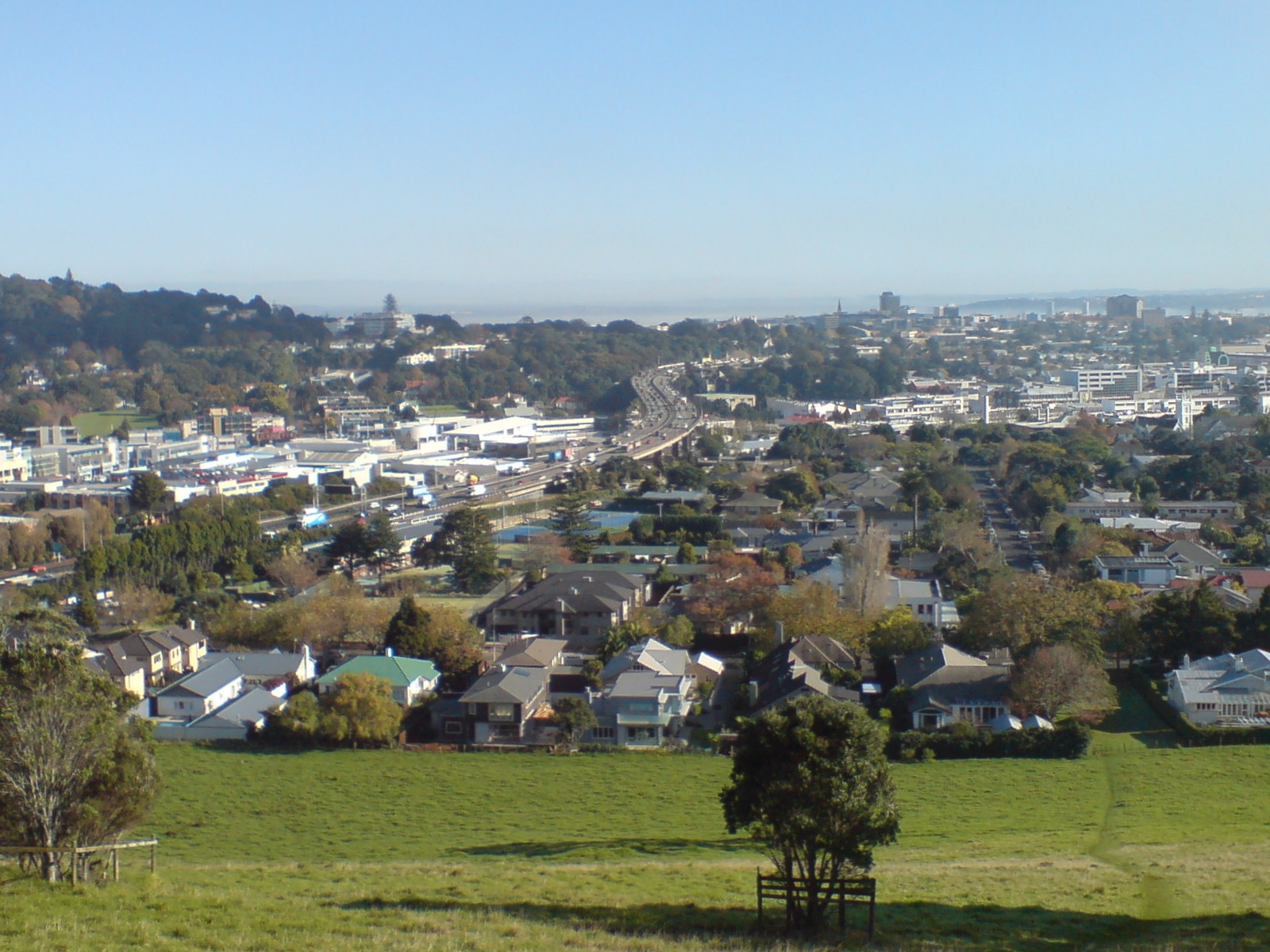 The State Highway 1's Newmarket Viaduct in the Newmarket suburb of Auckland City, New Zealand. Seen from Mount Hobson looking west.